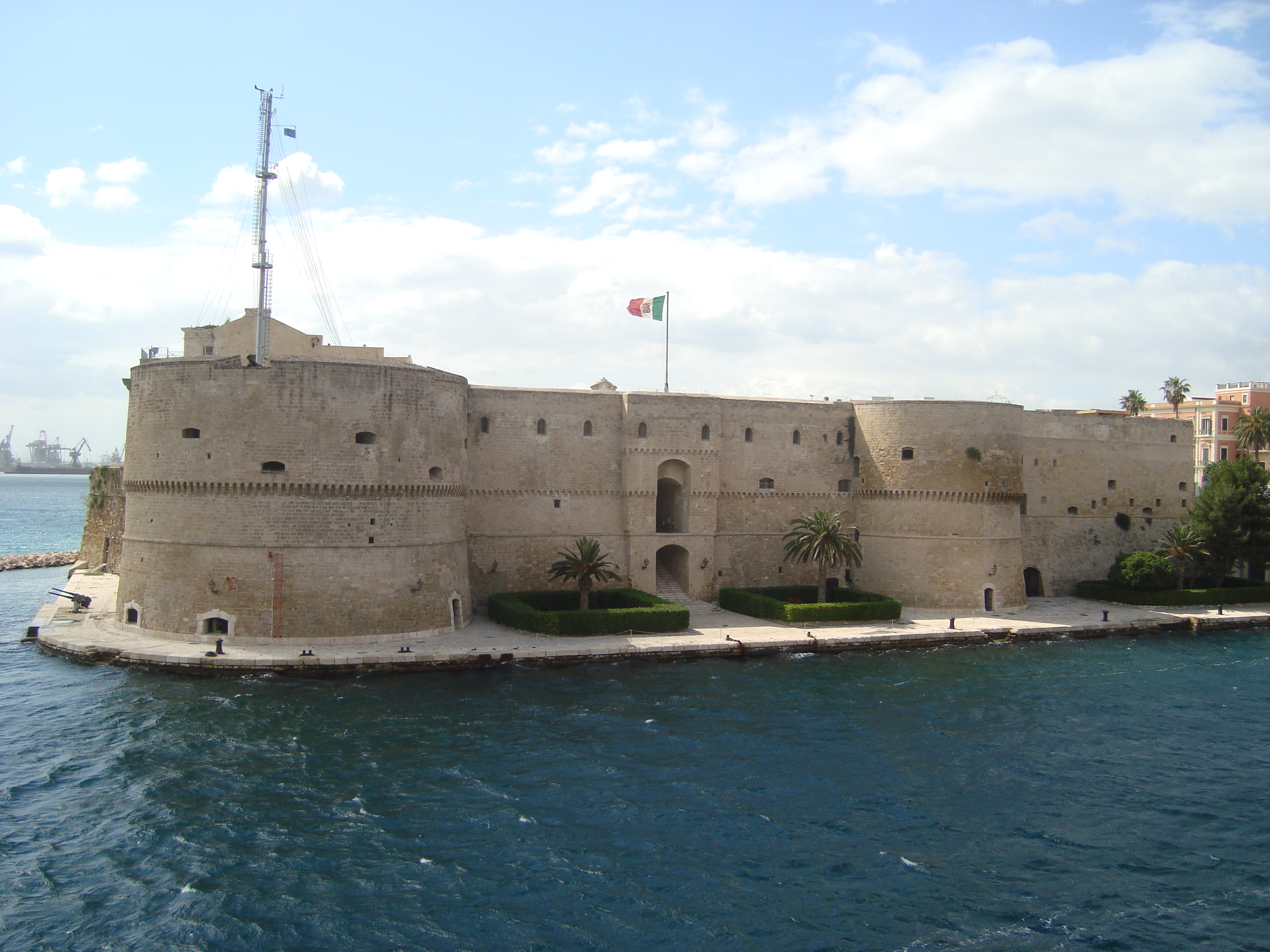 Castello Aragonese, Taranto